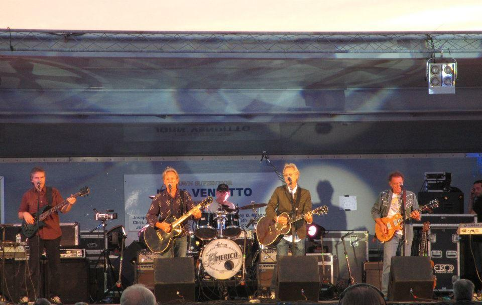 America performing at John J. Burns park in 2012.